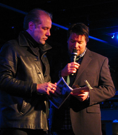 Scott Stamper announcing winners at the 2012 Asbury Music Awards ceremony. Photo by LHCollins.